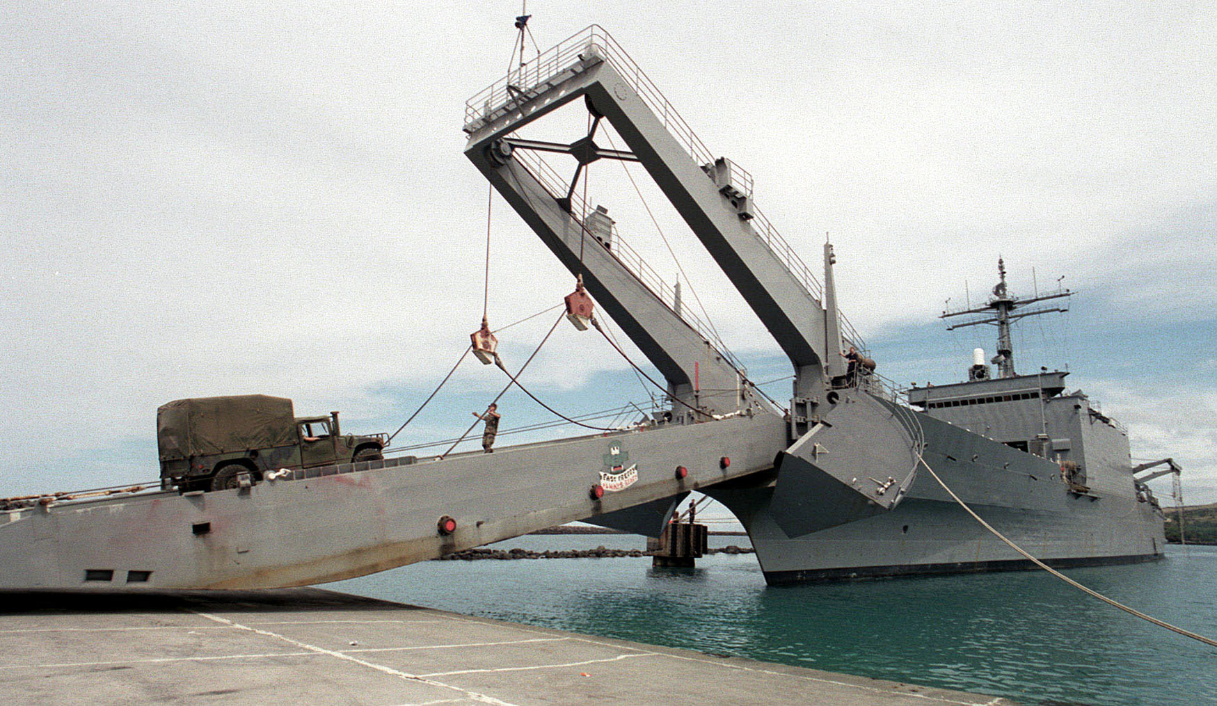 Hilo, HI. (Mar. 29, 1996) -- The U.S. Navy tank landing ship, USS Frederick (LST-1184), dropped its bow ramp to take on U.S. Marines and equipment. U.S. Tank landing ships (LST) are used to transport and land tanks, amphibious vehicles and other rolling stock in amphibious assault operations. Navy Photo by Photographer’s Mated 3rd Class Laine Altshuler. (RELEASED)